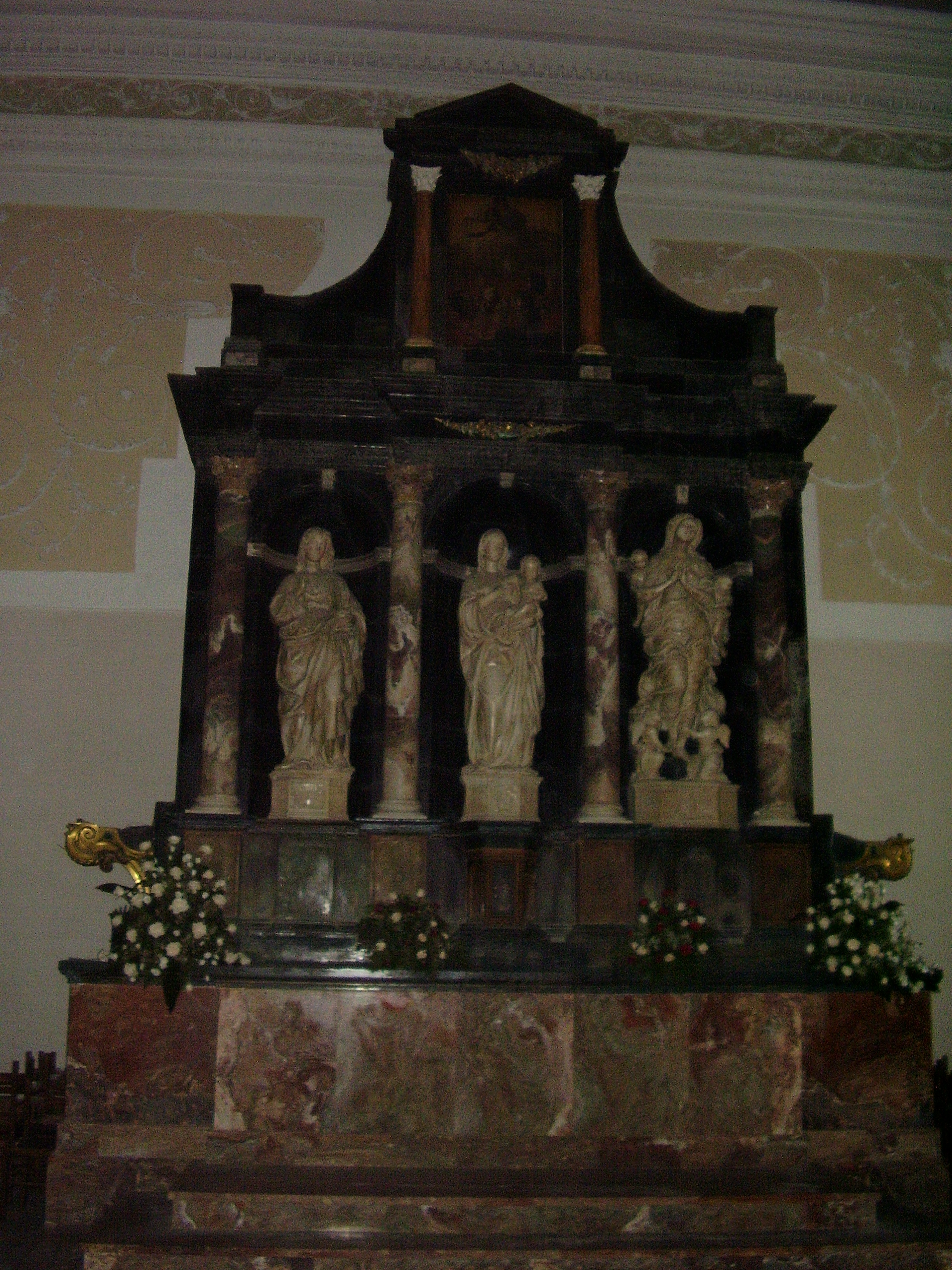 sculpture of A. Gagini, Vibo Valentia